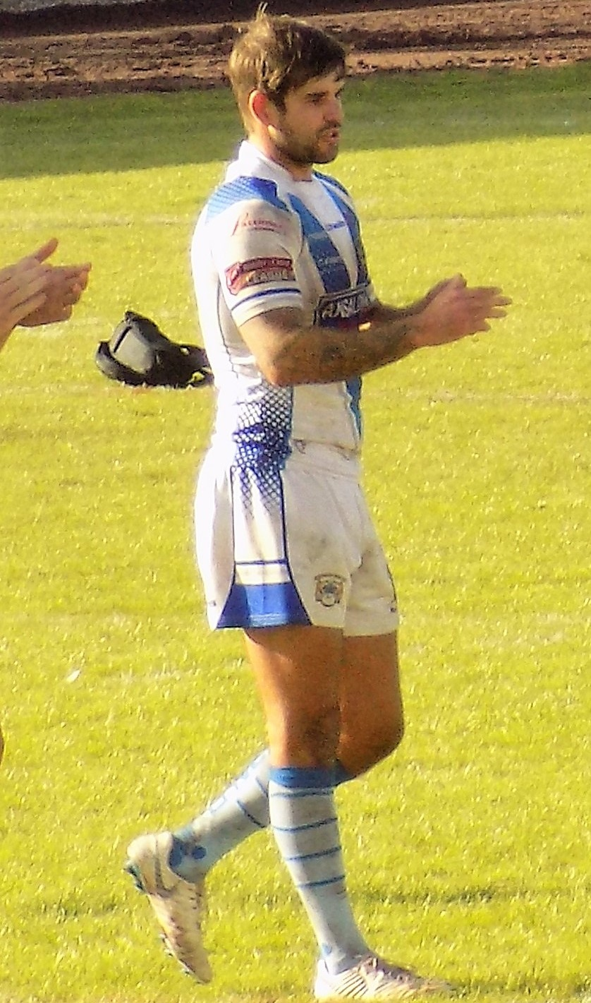 Number 7, Workington's kicker 2018